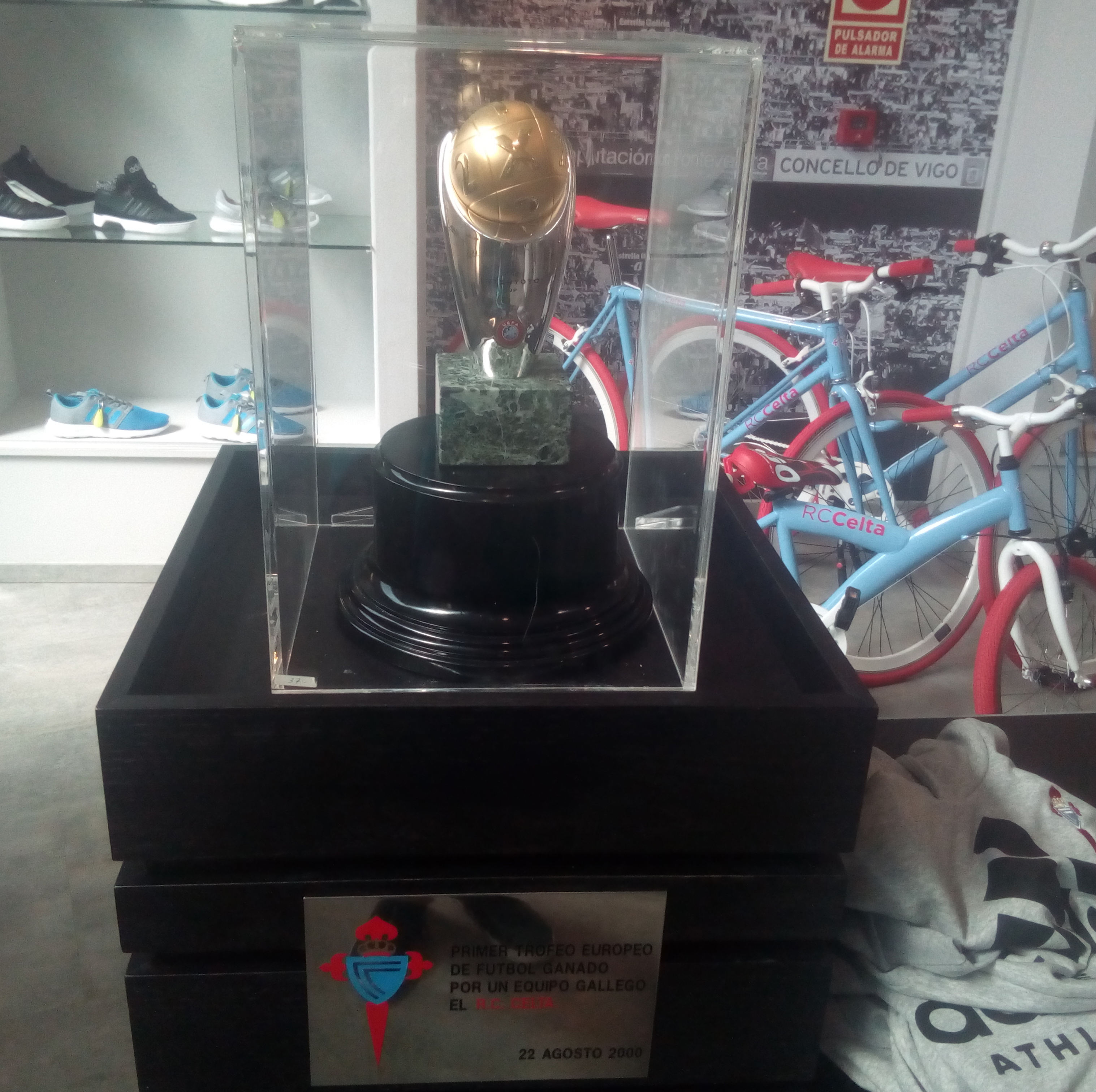 tienda oficial del RC Celta